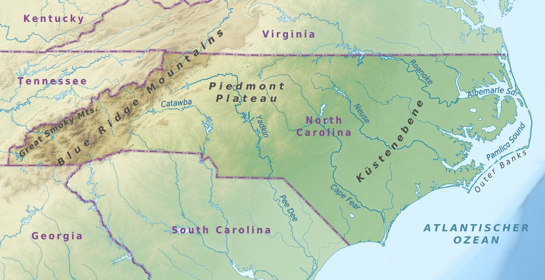 Physical map of North Carolina, USA